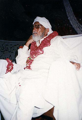 Al-Hajj Fazal Hussain Gohar Shahi father of Riaz Ahmed Gohar Shahi